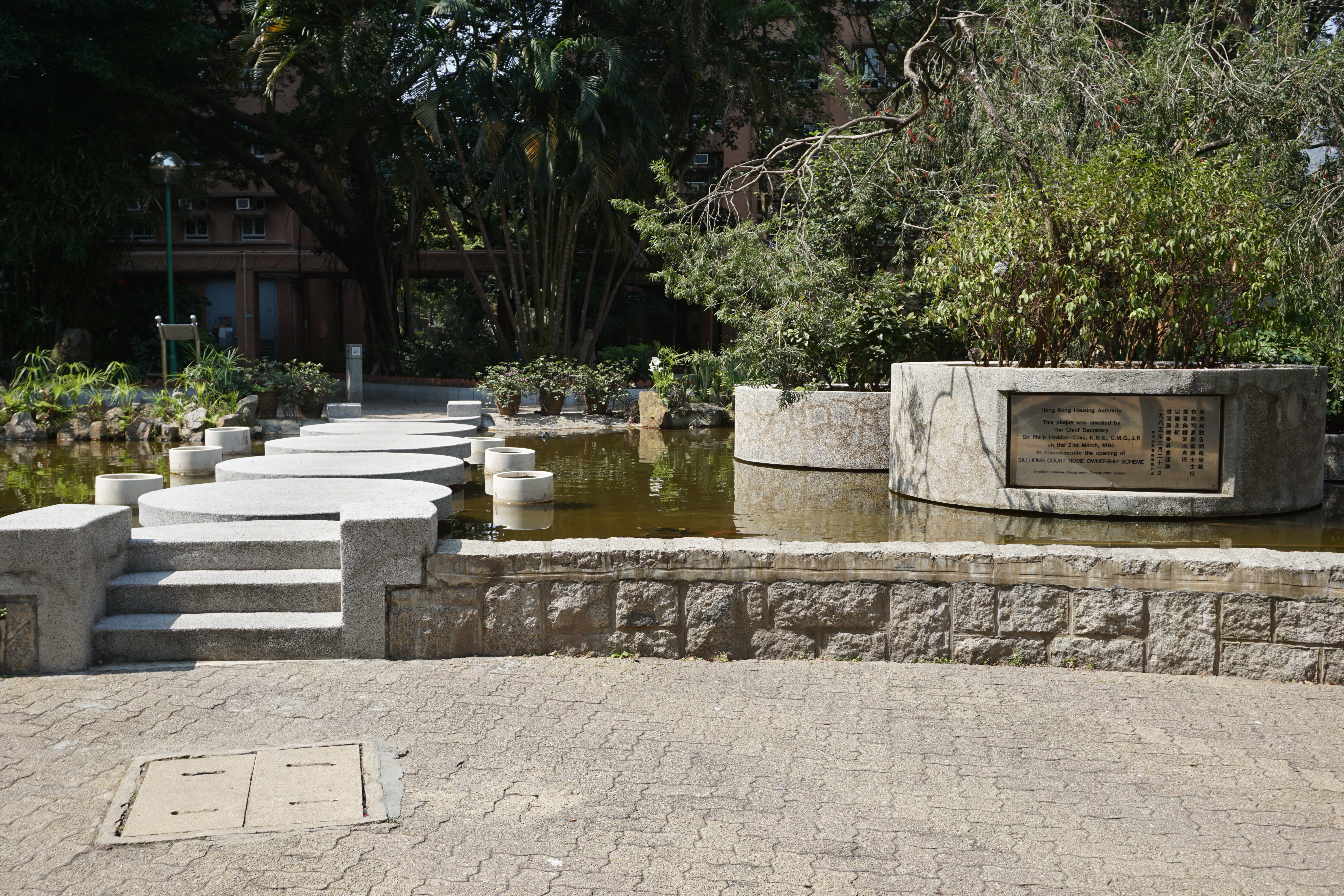 Siu Hong Court in Tuen Mun, Hong Kong.